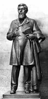 Statue of James Zachariah George, by Augustus Lukeman